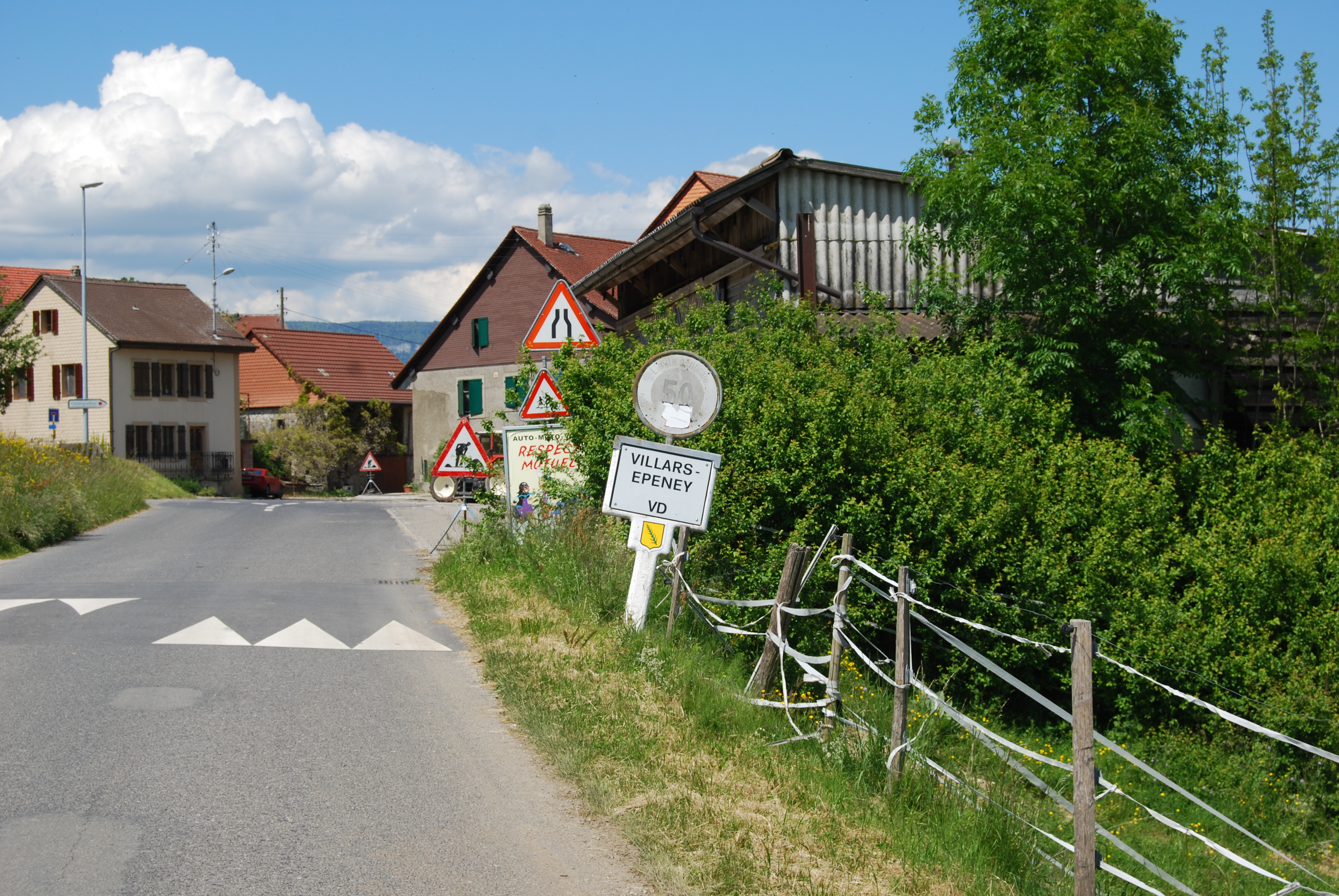 Villars-Epeney, canton of Vaud, SwitzerlandEsperanto: Villars-Epeney, Kantono Vaŭdo, Svislando